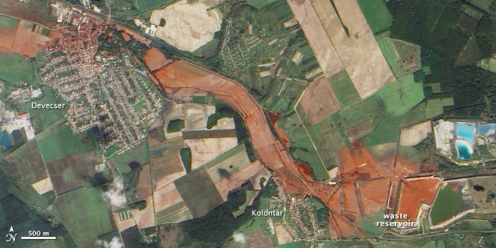 Natural-colour image of the area surrounding the toxic sludge spill in Hungary. The alumina plant appears along the right edge of the image and incorporates both bright blue and brick red reservoirs. The sludge forms a red-orange streak running west from the plant. This view shows the spill thinning but remaining discernible for several kilometres to the west.